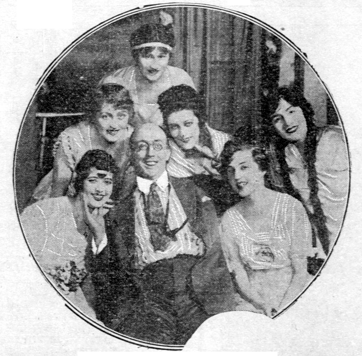 This is a publicity photo of Richard Carle, although 100% certain, with good faith I believe it to be the same stage and film actor named in a Wikipedia article.